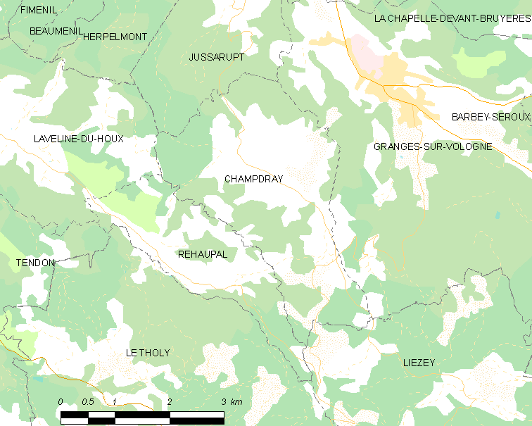 Map of French municipality Champdray